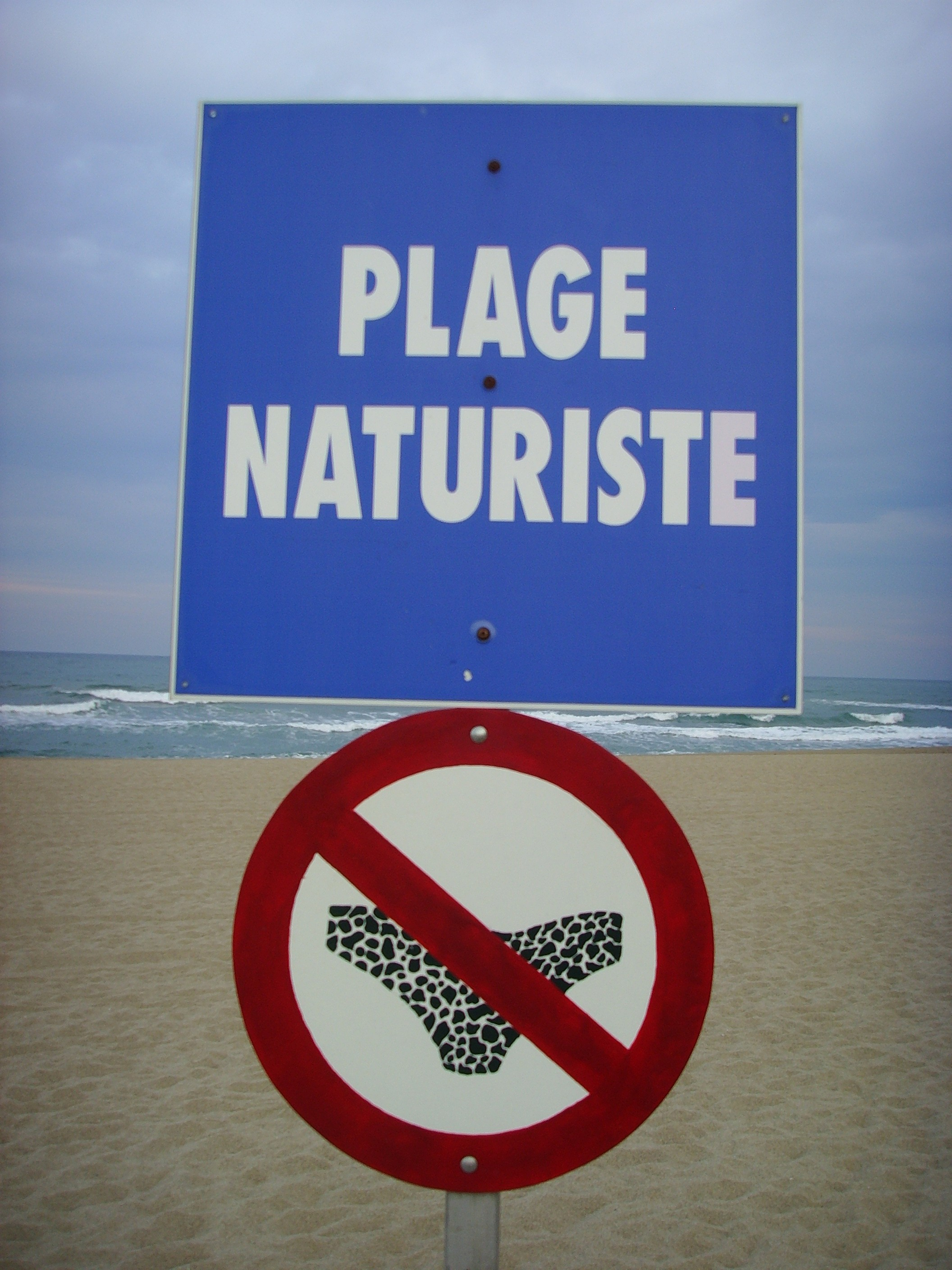 Naturist beach of Port Leucate, Languedoc-Roussillon, France: Signpost "naturist beach", bathing trunks are not allowed here